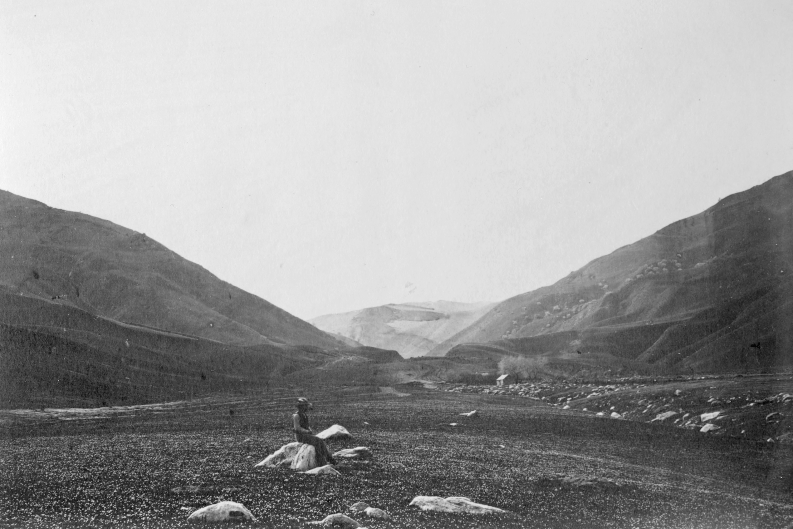 Canada de las Uvas, or Tejon Pass in Sierra Nevada, California, 1690 miles west of Missouri River. Image Description The Canada de las Uvas, or 'Canyon of the Grapes' - named after the canyon's native grapevines (Vitus californica). Location: At canyon landform between the Tehachapi Mountains (left—southeast) and San Emigdio Mountains (right—northwest), in Southern California, circa 1868. (Not in the in Sierra Nevada range, per 1868 title. ) View: To southwest, from the southwestern San Joaquin Valley floor towards Tejon Pass (on present day Interstate 5), and Fort Tejon. Gardner Series This is plate 106 - in a series of views by Alexander Gardner made in 1867 and 1868 starting in St. Louis, Missouri through Kansas, Colorado, New Mexico, and Arizona to San Francisco, California. Series made for the Union Pacific Railroad, Eastern Division later renamed the Kansas Pacific Railroad. Gardner accompanied the survey party seeking the best southern route for the railroad going through Kansas along the old Santa Fe Trail south to Albuquerque, then west along the 35th parallel to the Tehachapi Pass before heading north to San Francisco. The series is significant as the earliest comprehensive U.S. western landscape survey. Included are photographs of towns, buildings, soldiers, Native Americans, other people, forts, vegetation, geological formations, rivers, plains, mountain ranges, and railroad construction. Physical Description 1 photographic print: albumen; 15 x 20.3 cm. on 30.3 x 45.7 cm. mount